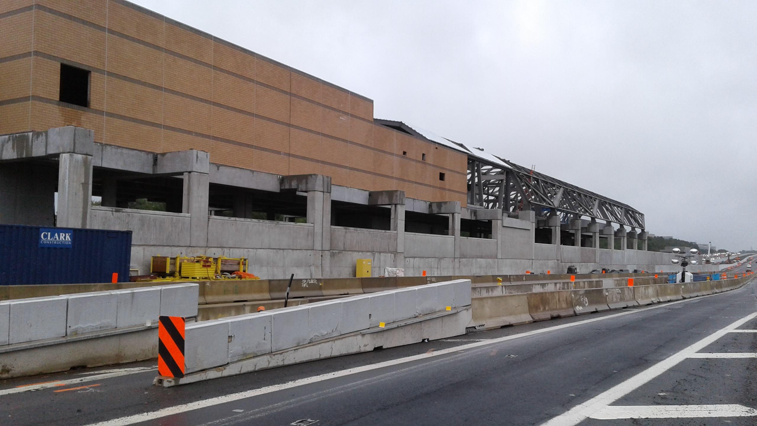 Innovation Center Station under construction, September 29, 2016